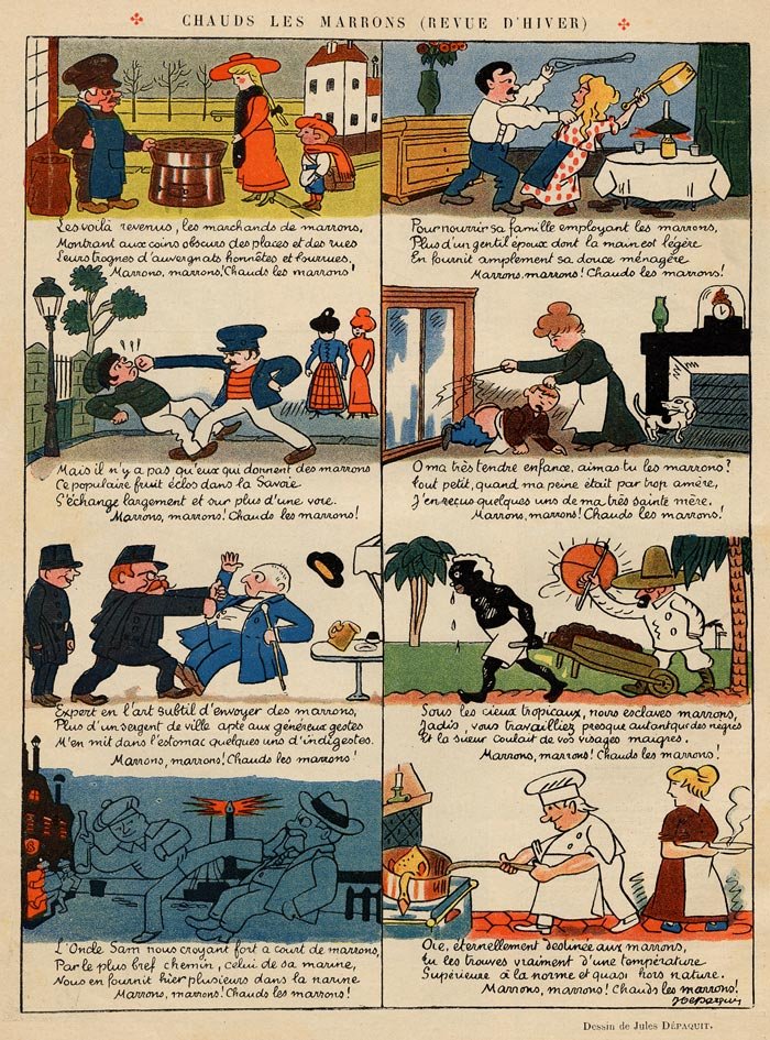 Comic strip from "Le Rire" by Jules Depaquit : "Chauds les marrons" ("Hot chestnuts")